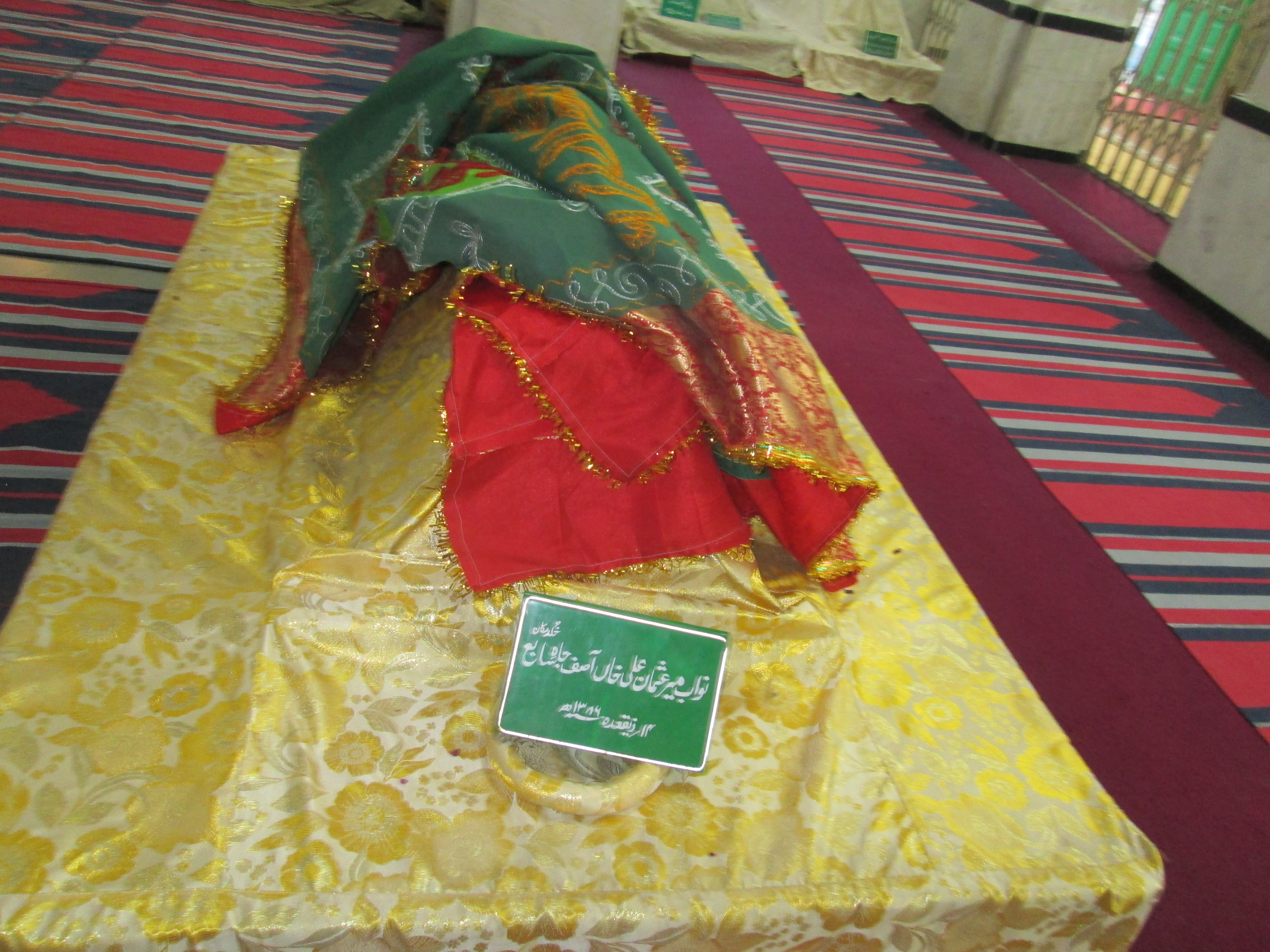 Tomb of the last Nizam of Hyderabad